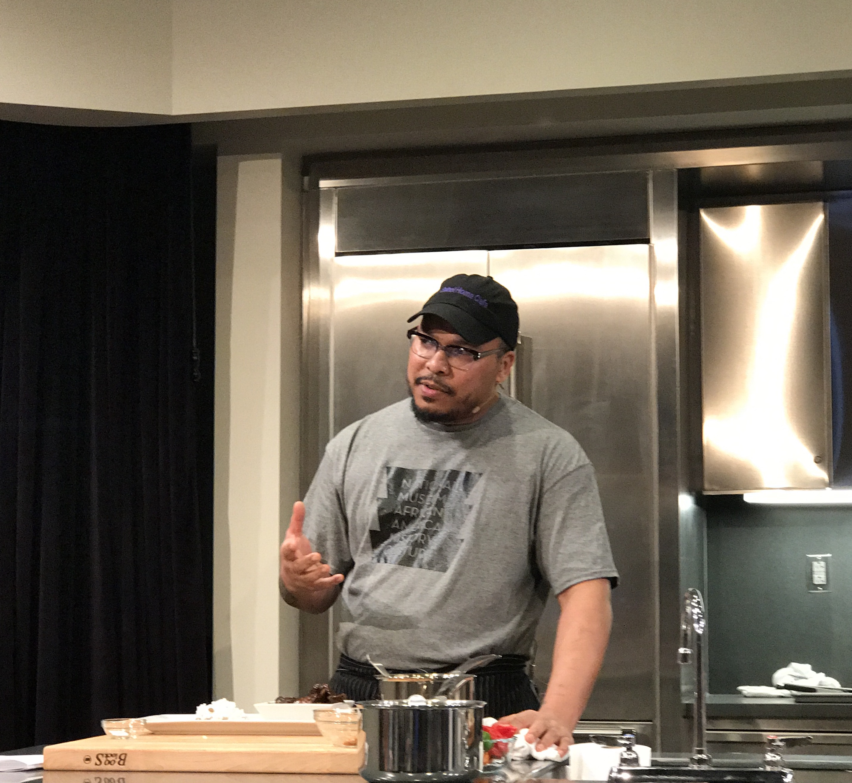 Jerome Grant - Cooking up History Demo at the National Museum of American History for Black History Month